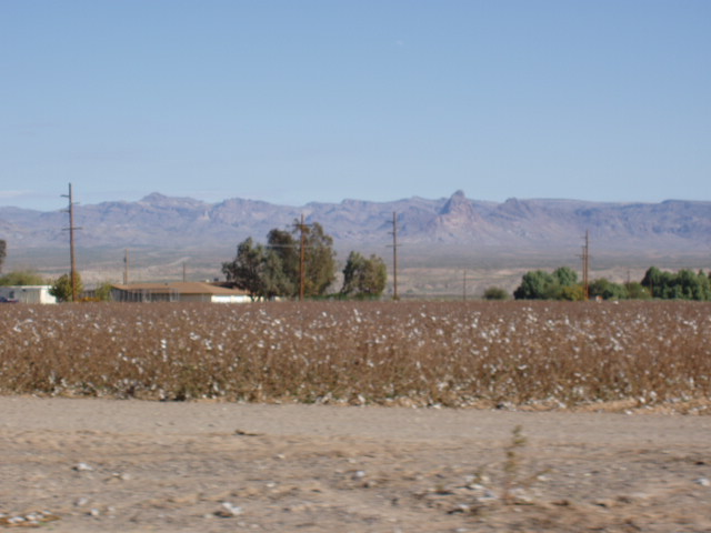 The Fort Mojave Indian Reservation, near Bullhead City, Arizona. Located in the Mohave Valley, with Boundary Cone visible on center-right.